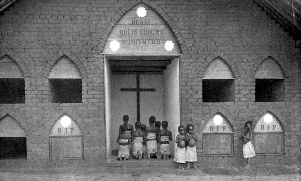 Missionary Necropolis, Luluabourg - p. 328